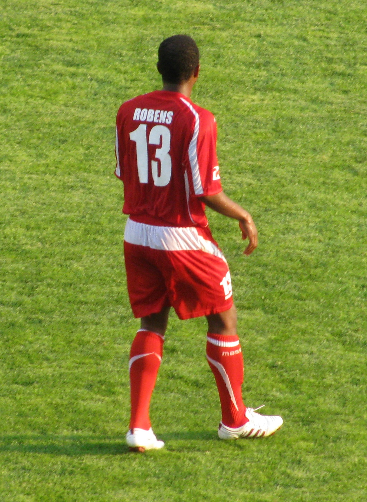 Jean-Robens Jerome in the 2010-2011 UEFA Europa League match against Hazar